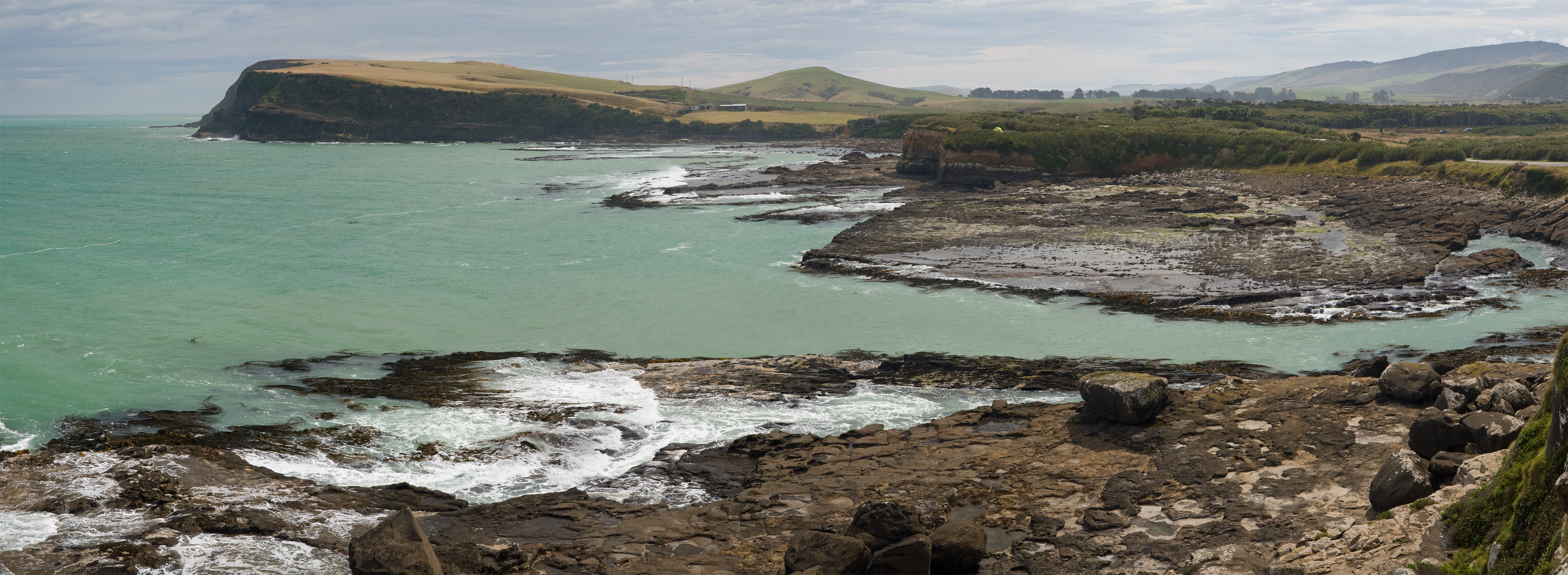 The Catlins is an impressive coastal area in the southeast of New Zealand's southern island. This panorama shows Curio Bay and is stitched from 6 portrait format images.